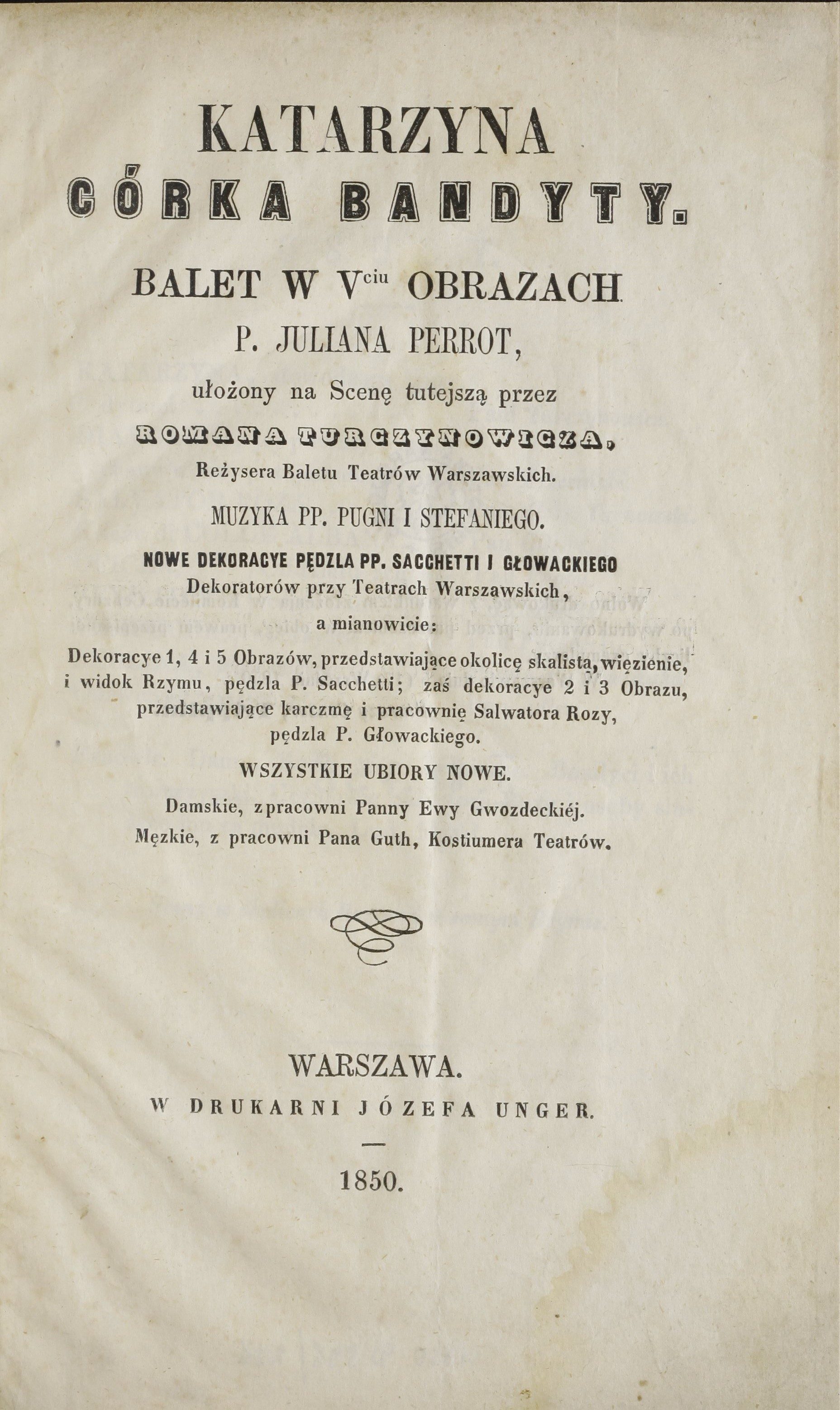 "Catarina, ou La Fille du bandit", front page of the programme, Warsaw 1850.